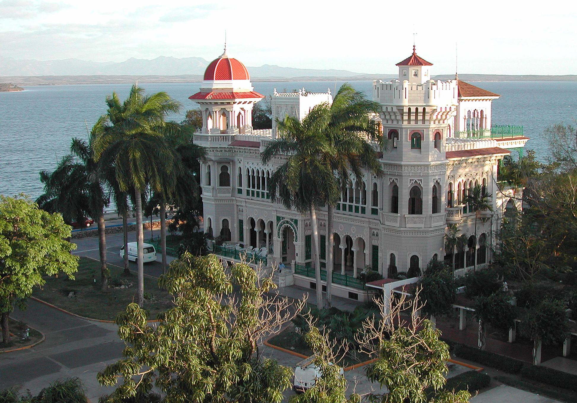 Mansion in the Moorish Revival architecture style, in Cienfuegos, central Cuba.